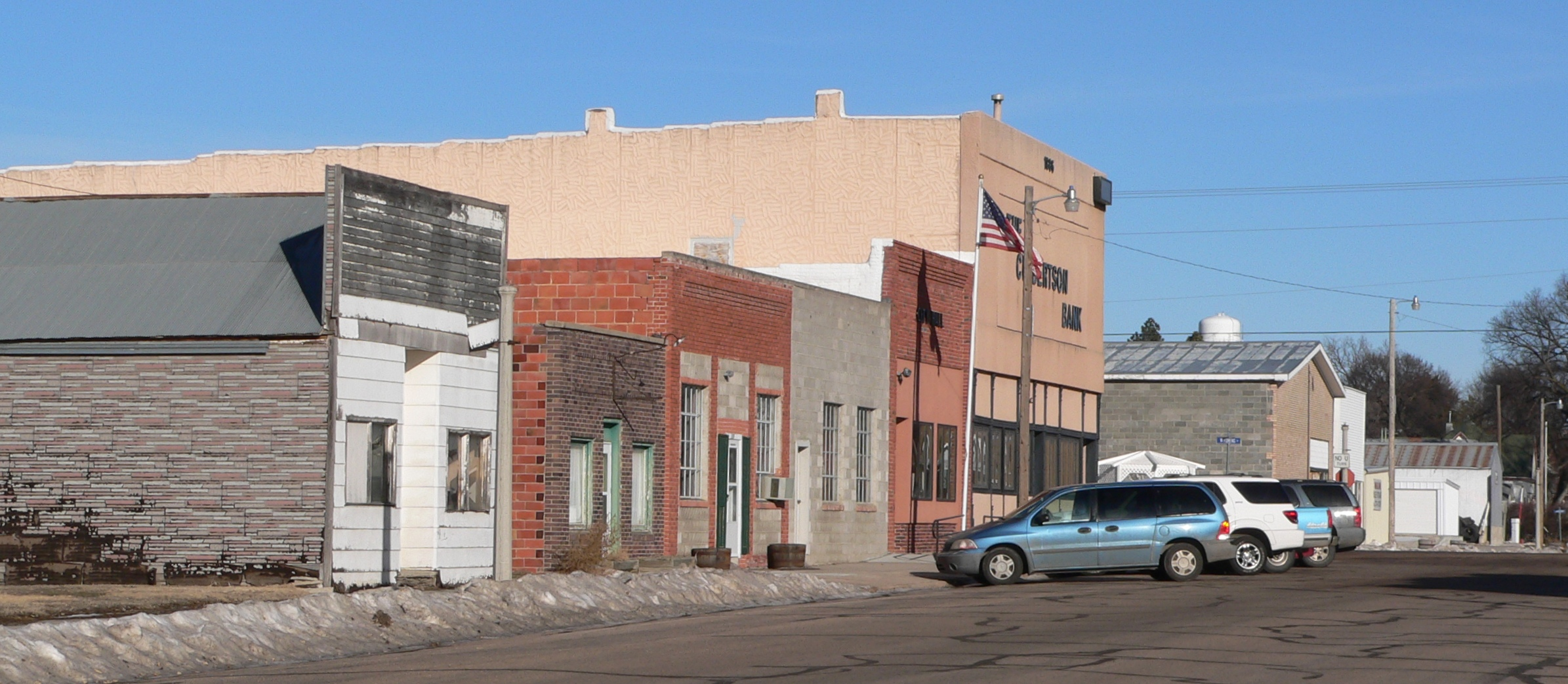 Downtown Culbertson, Nebraska: west side of 300 block of Taylor Avenue